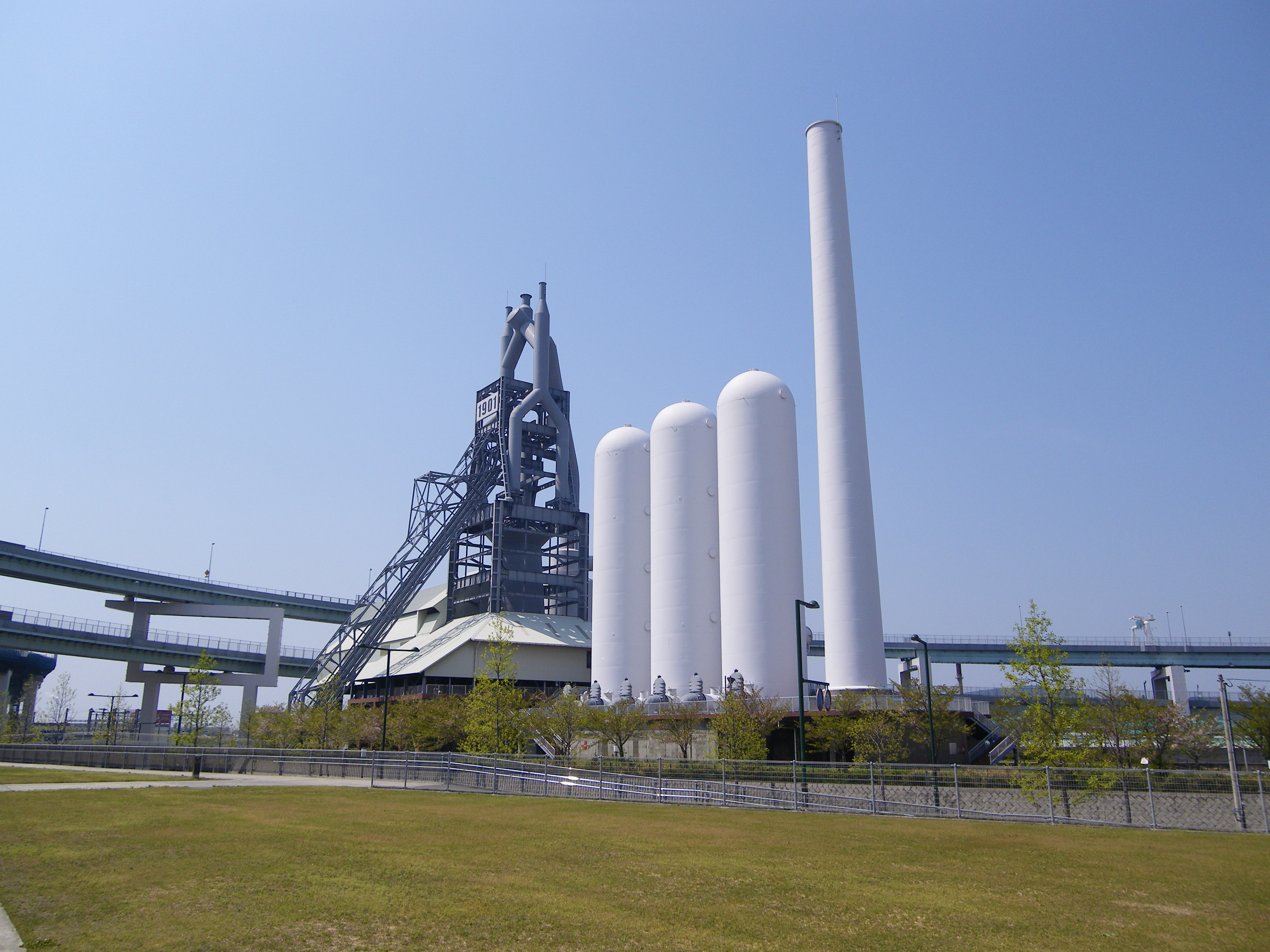 Higashida Blast Furnace I, Yahata-higashi Ward, Kitakyushu City, Fukuoka Prefecture, Japan.